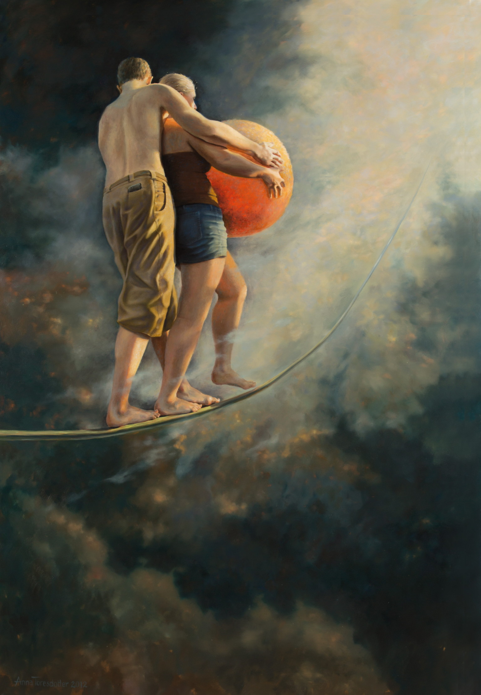 It´s a case of care or loose. Oilpainting by Anna Toresdotter, Sweden, 205 x 140 cm, 2013.